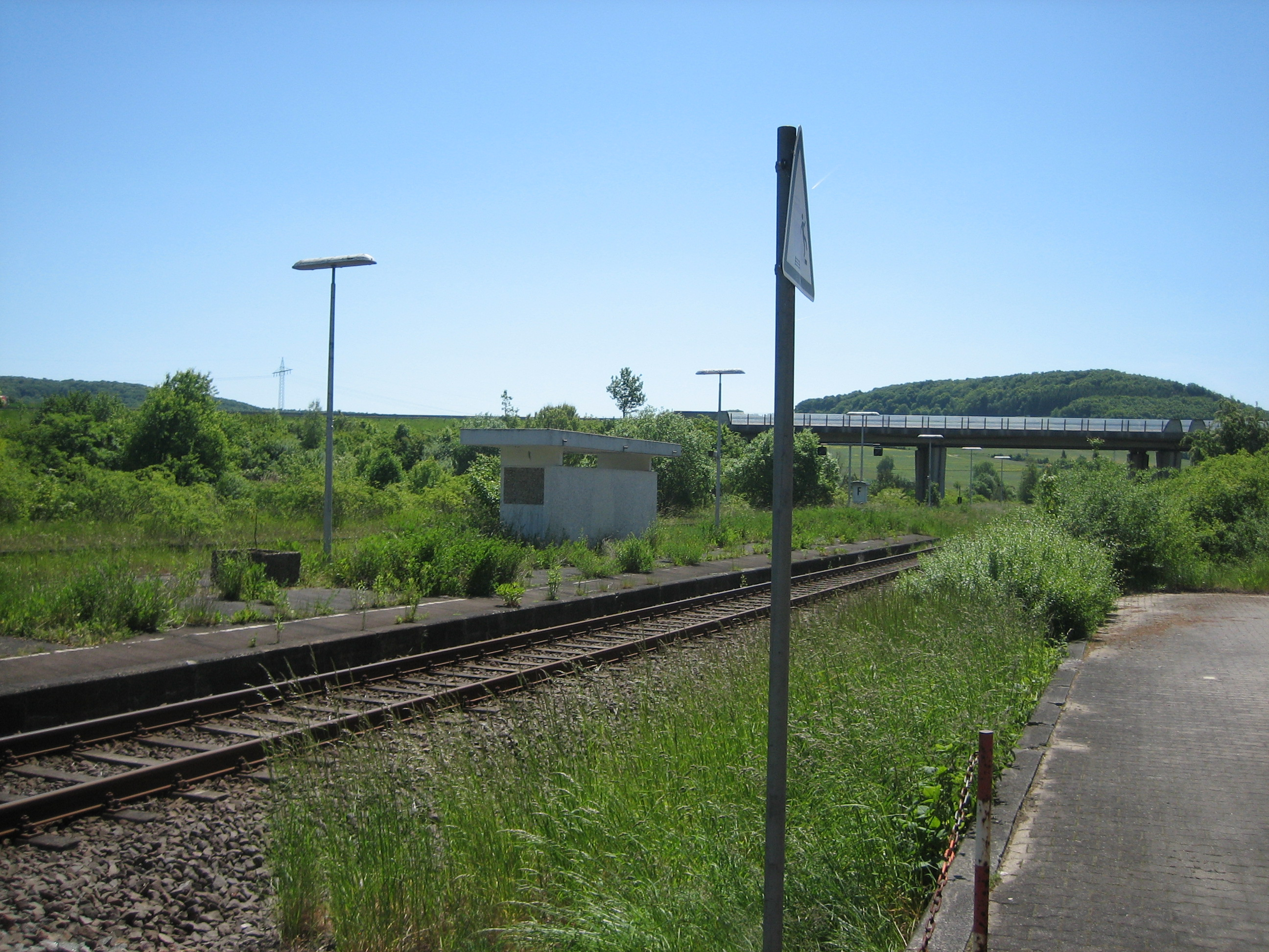 Gap of former Station Langmeil